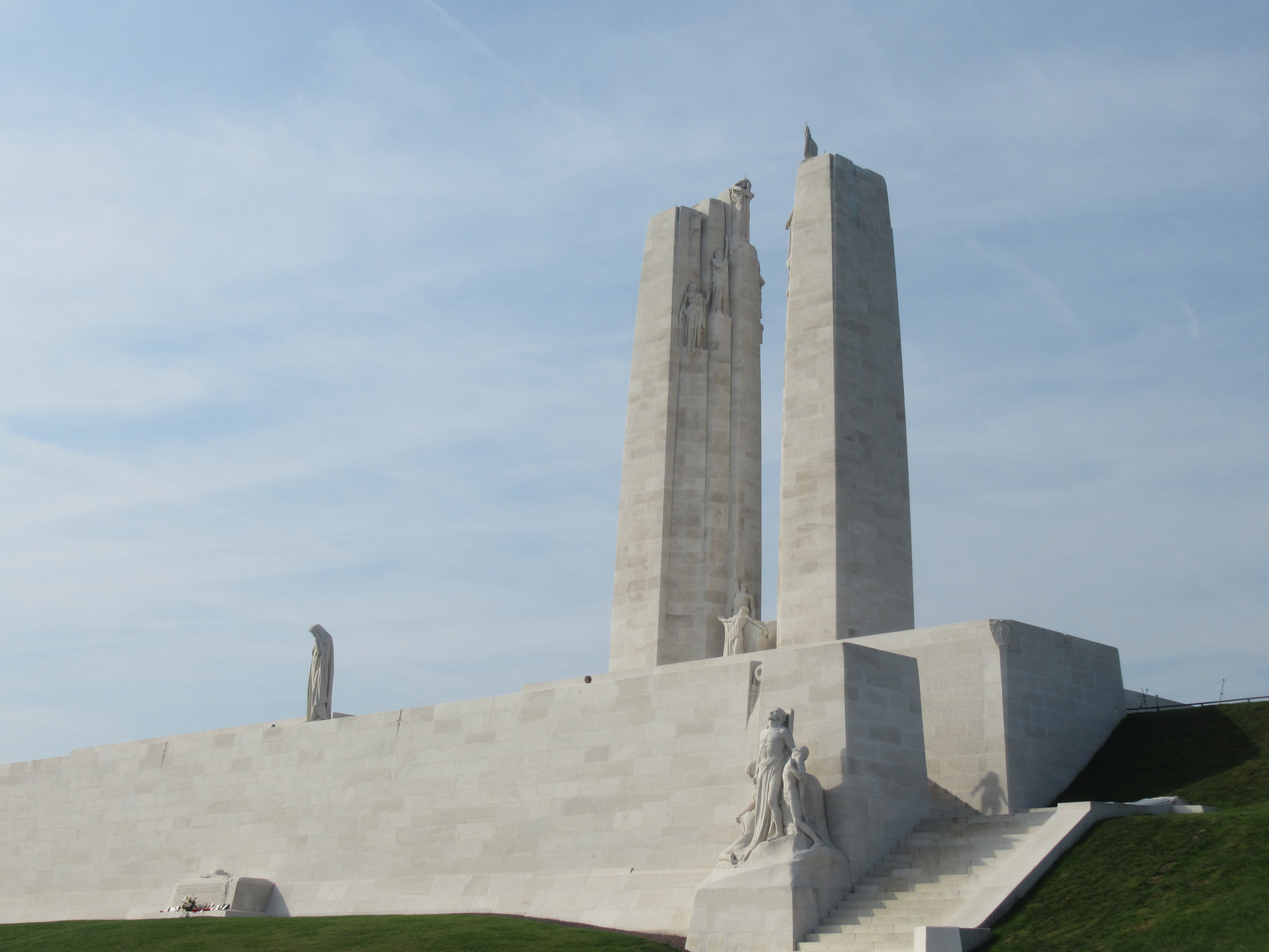 awe inspiring